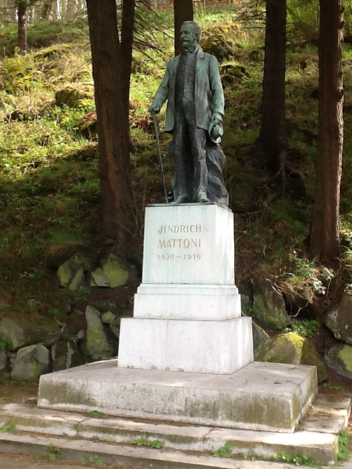 Statue of Mattoni Lázně Kyselka 2014